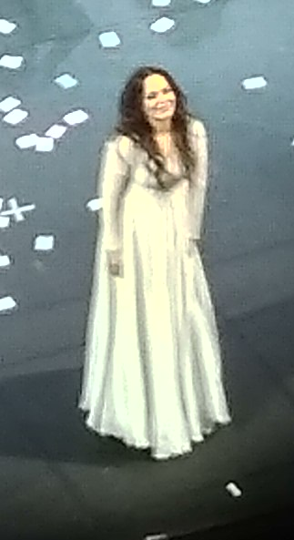 Opera "The Queen of Spades in Moscow" in three acts in Bolshoi Theatre, the performance on July 20, 2019.Conductor — Tugan SokhievHerman — Nazhmiddin MavlyanovCount Tomsky — Elchin Azizov Prince Yeletsky — Igor GolovatenkoChekalinsky — Marat GaliSurin — Denis Makarov Chaplitsky — Bekhzod DavronovNarumov — Alexander BorodinMaster of Ceremonies — Stanislav MostovoyThe Countess — Elena ManistinaLiza — Anna NechaevaPoulina — Yulia MatochkinaGoverness — Elena NovakMasha — Oxana GorchakovskayaPrilepa — Anastasia SorokinaMilovzor (Poulina) — Yulia MatochkinaZlatogor (Count Tomsky) — Elchin Azizov